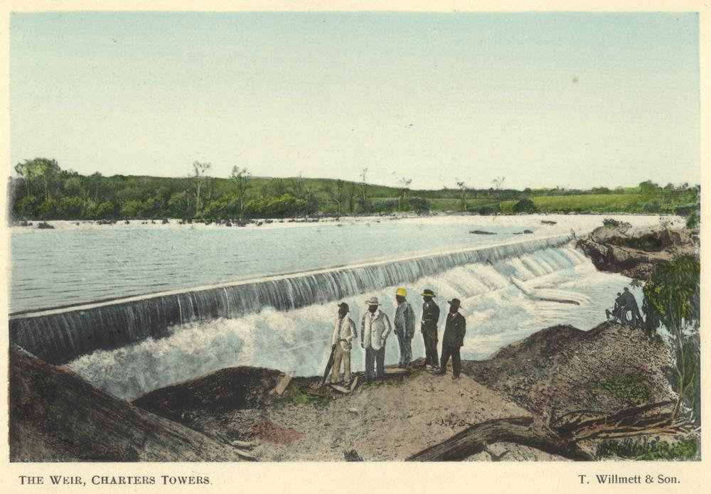 Charters Towers weir, 1904. This is a photograph taken from a small album of hand coloured photographs about Charters Towers published by T. Willmett & Son, Charters Towers in 1904.